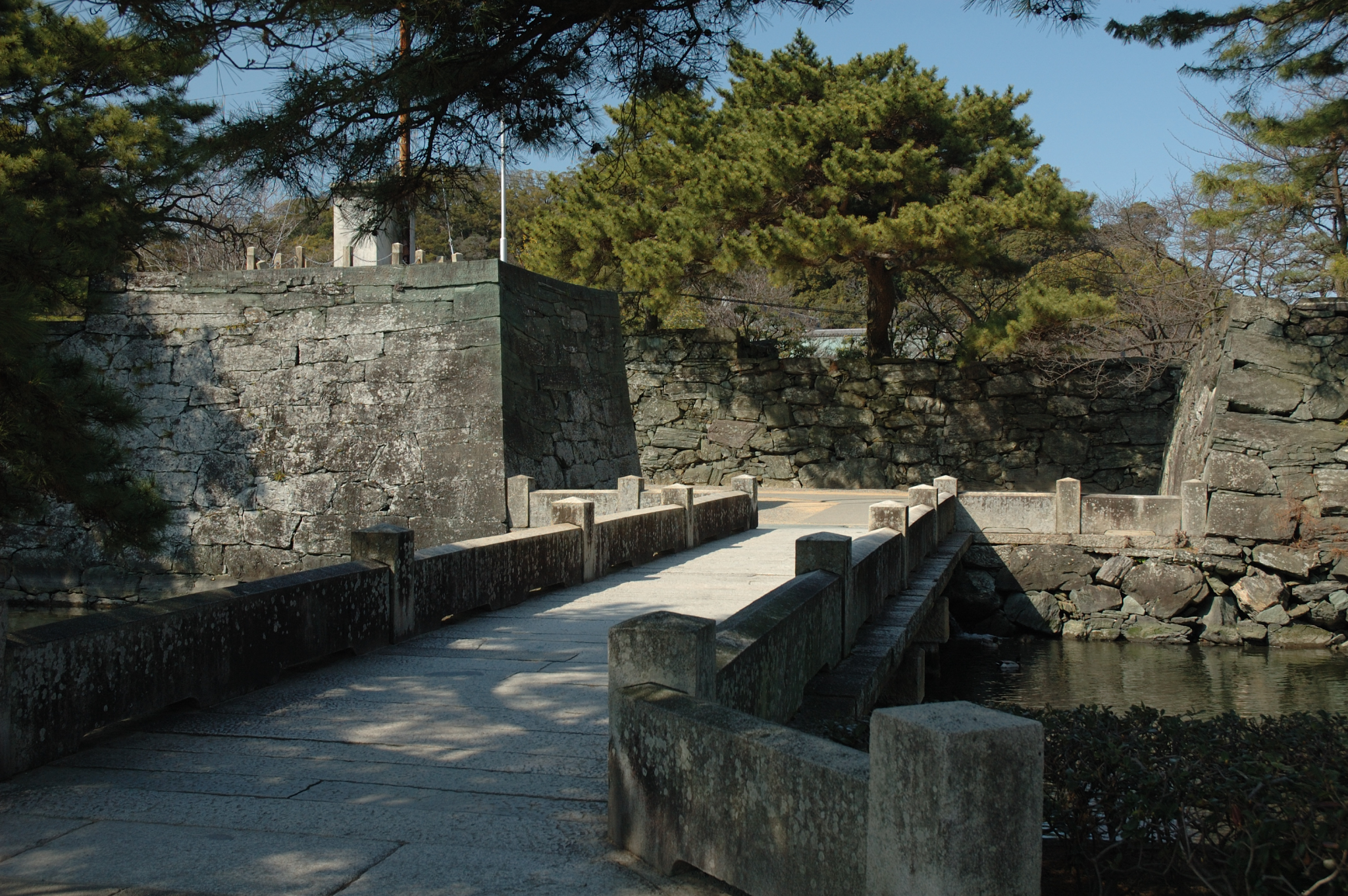 The Gejo-bashi bridge and site of the Ote-mon gate